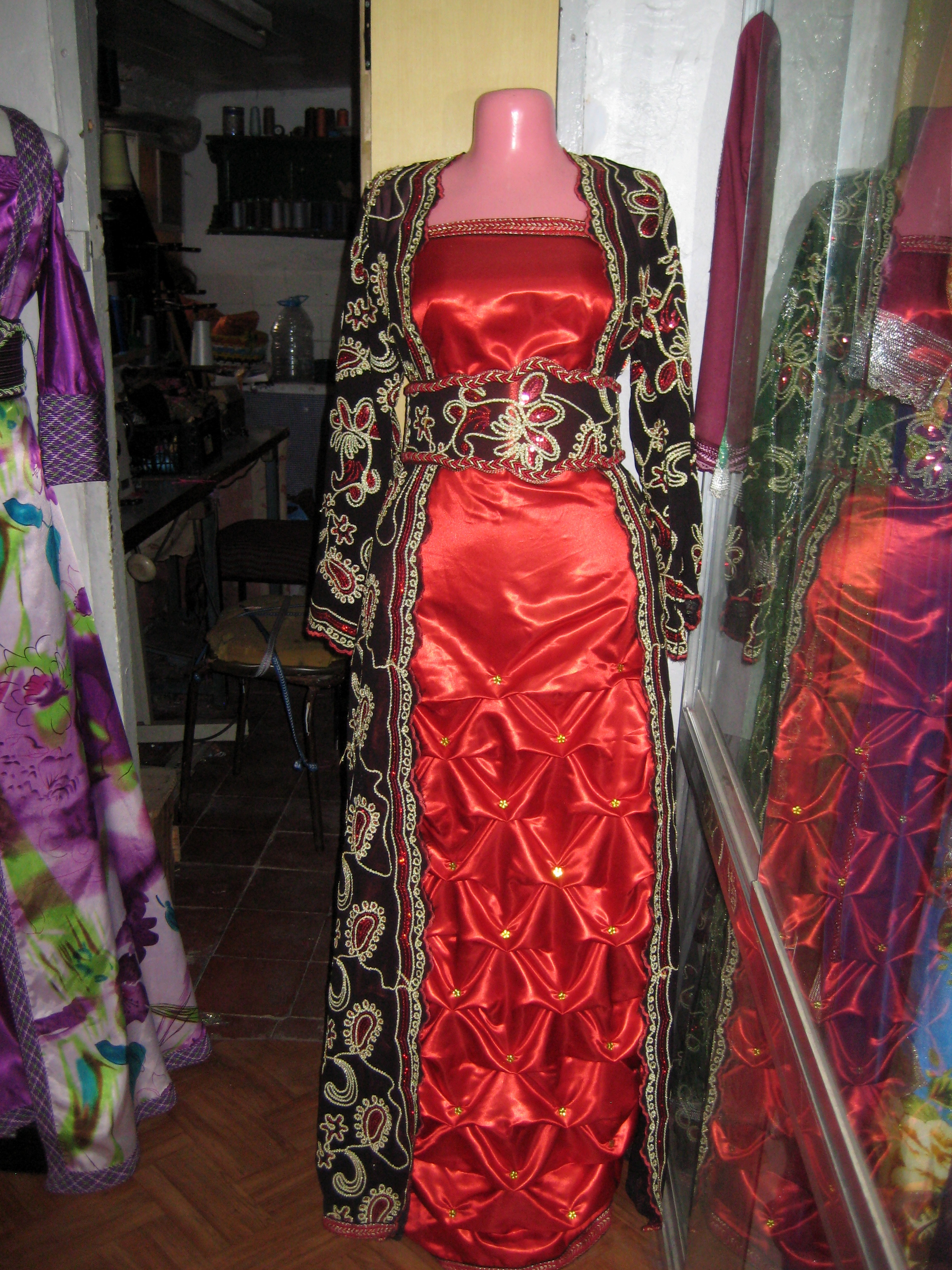 Caftans in the casbah